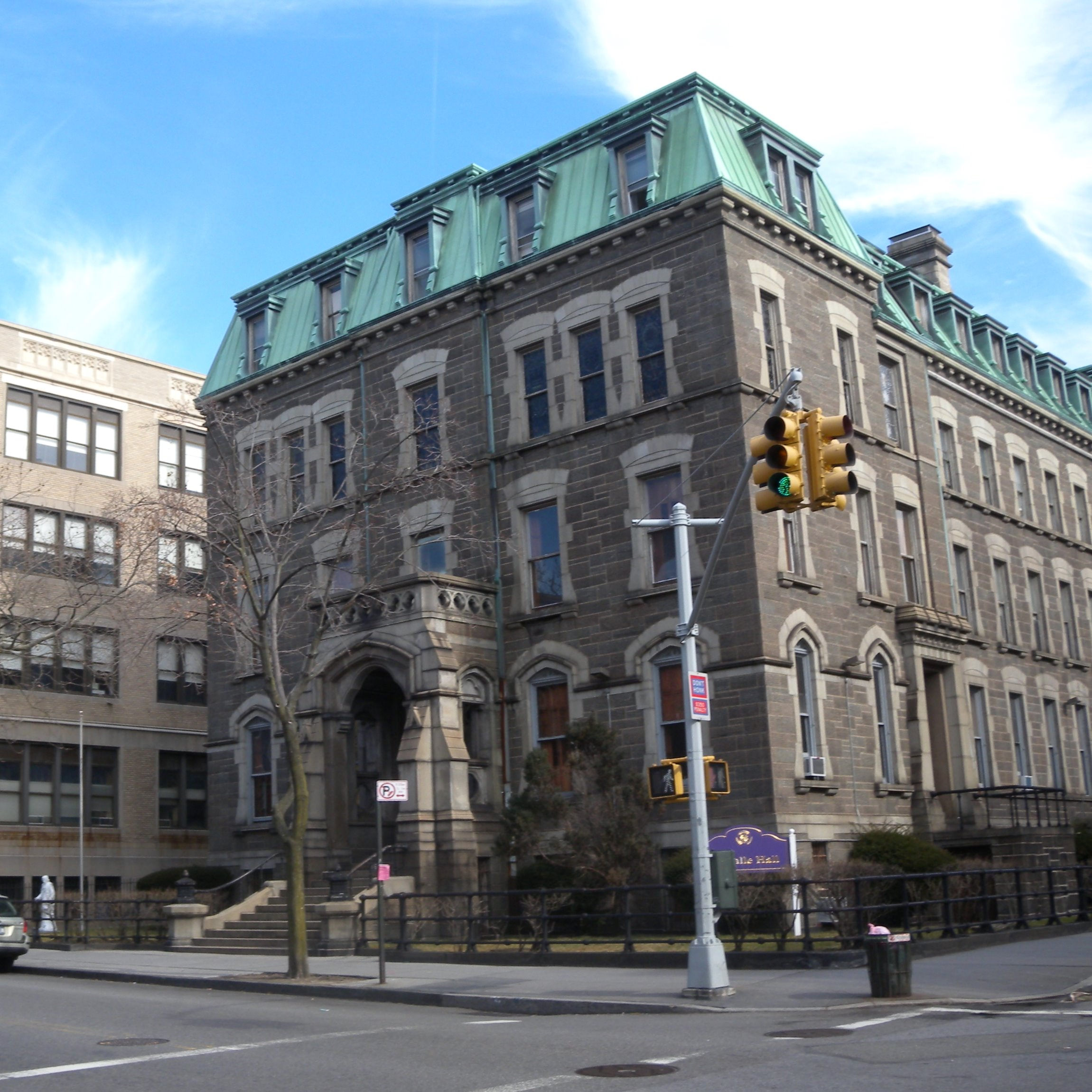 Looking northeast across Clermont and Greene Avenues at La Salle Hall on a mostly sunny morning.